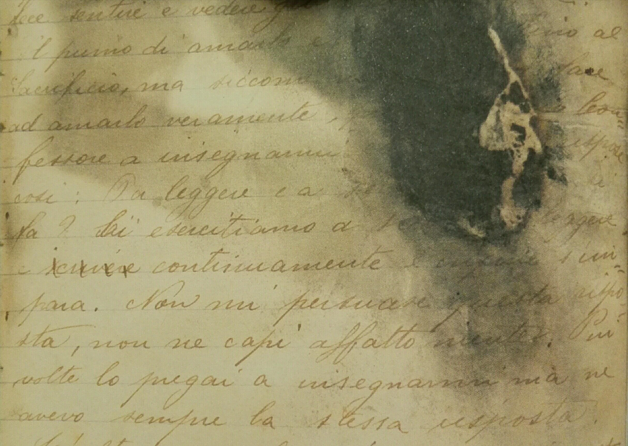 Santa Gemma, Diary, detail.